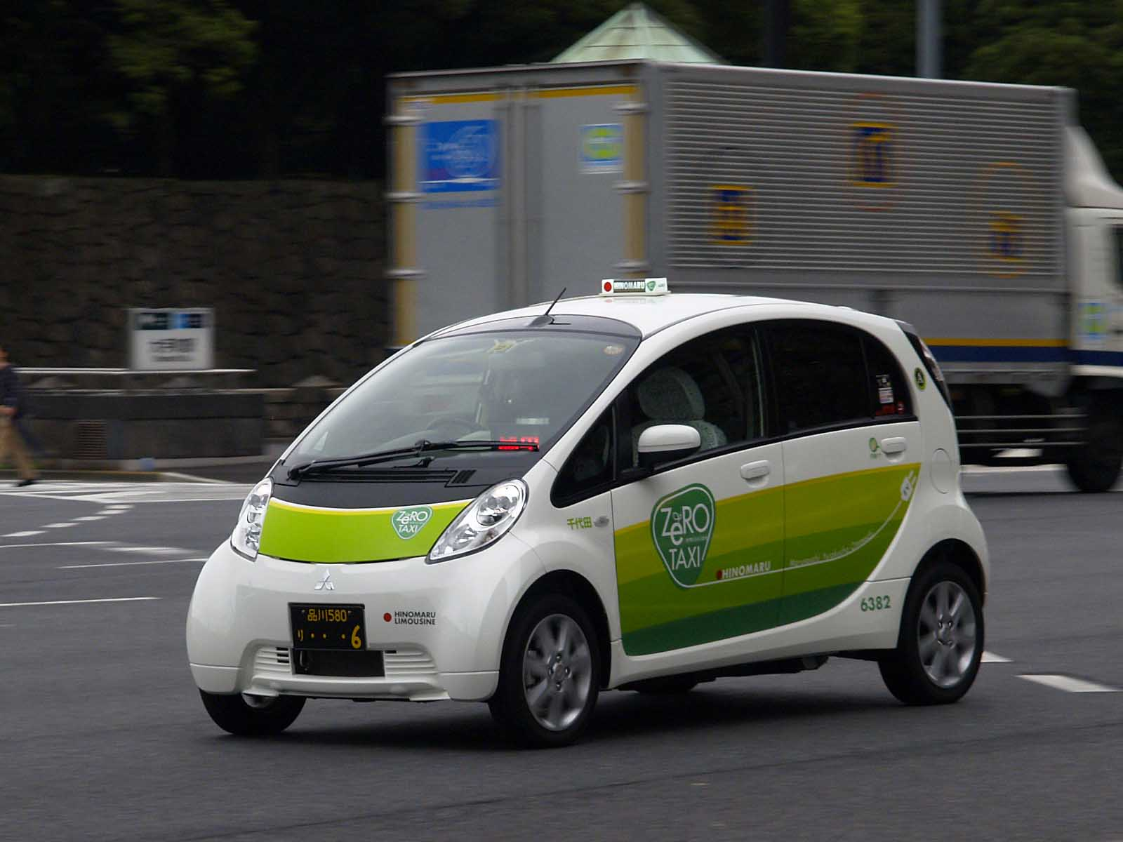 Hinomaru Limousine Mitsubishi i-MiEV taxi, named "ZeRO TAXI". License plate: TKS580 RI---6 Place: Marunouchi, Chiyoda Ward, Tokyo Japan